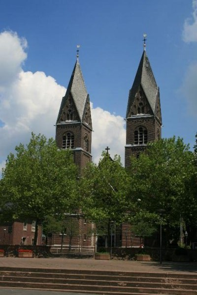 Cultural heritage monument No. 70 in Nettetal